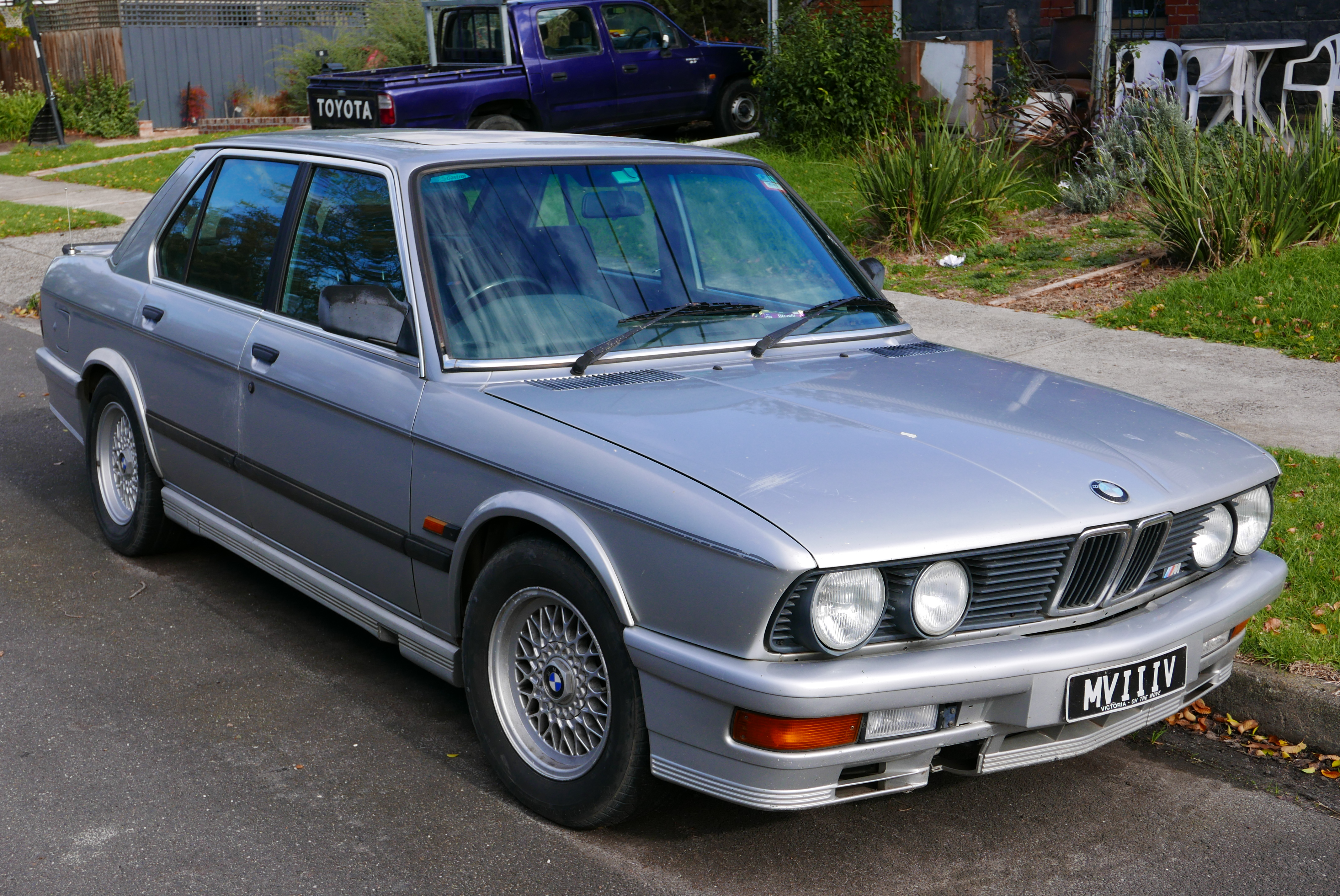 1986 BMW M535i (E28) sedan. Photographed in Northcote, Victoria, Australia. Vehicle registration enquiry results Jurisdiction Victoria Registration MVIIIV Chassis code WBADC520801670115 Engine code 41813382 Compliance date 1986-07 Year of manufacture 1986